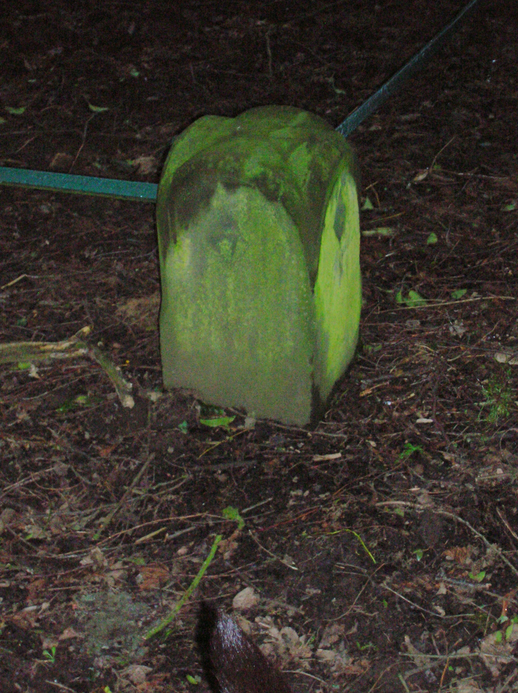 Boundary stone at the cholera pit in the Howard Park, Kilmarnock, East Ayrshire, Scotland.